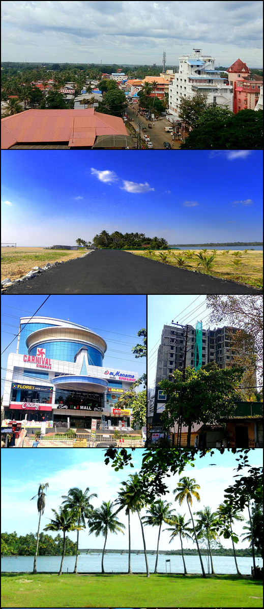 Kollam Metropolitan Area or Kollam Urban Agglomeration is the 10th largest urban agglomeration in South India and 7th largest in Kerala.